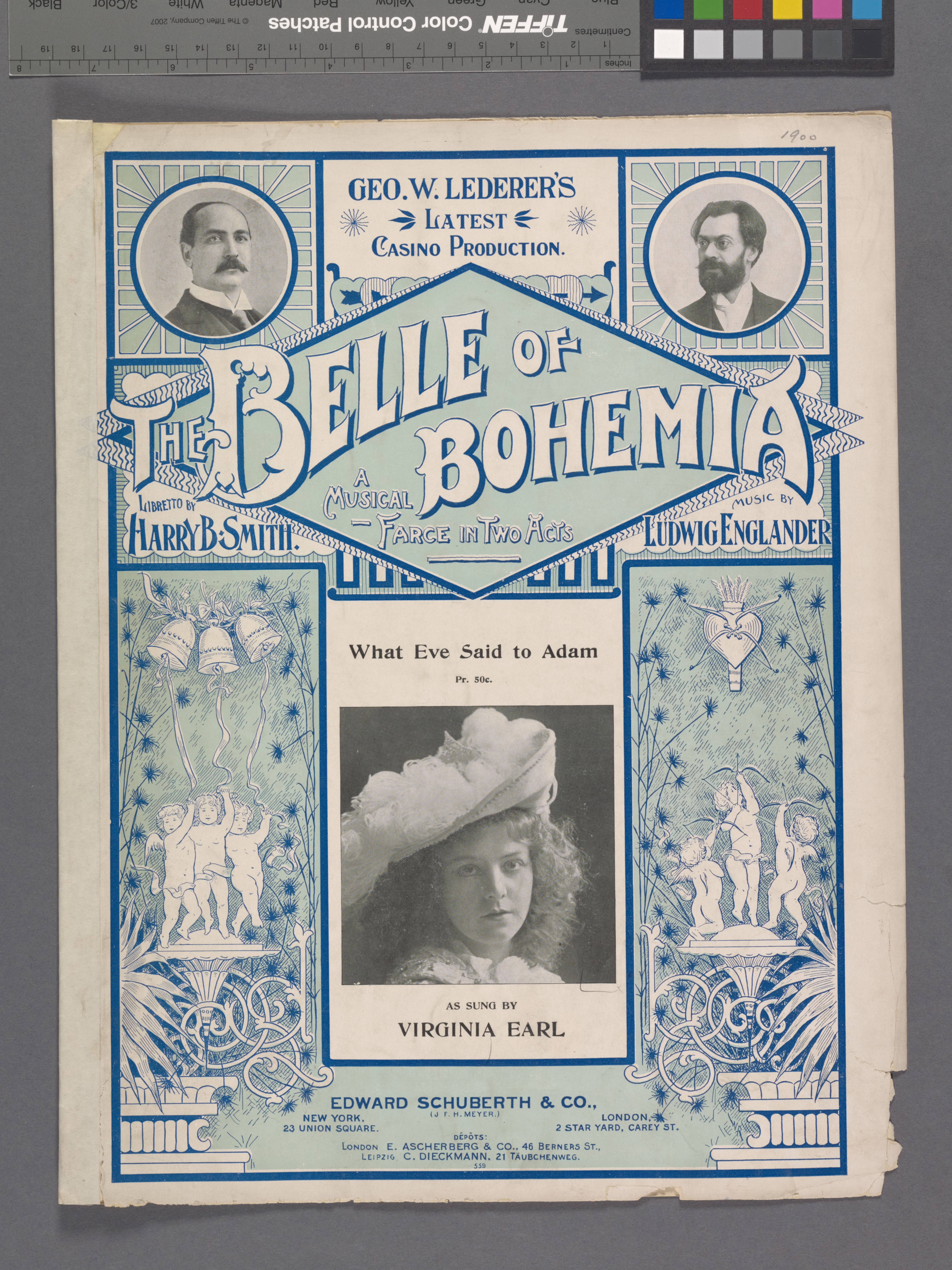 On cover: Virginia Earl; Harry B. Smith ; Ludwig Englander. The Belle of Bohemia. [musical] Statement of responsibility : words by Harry B. Smith ; music by Ludwig Englander.